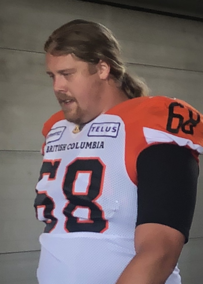 David Foucault, offensive lineman for the BC Lions.